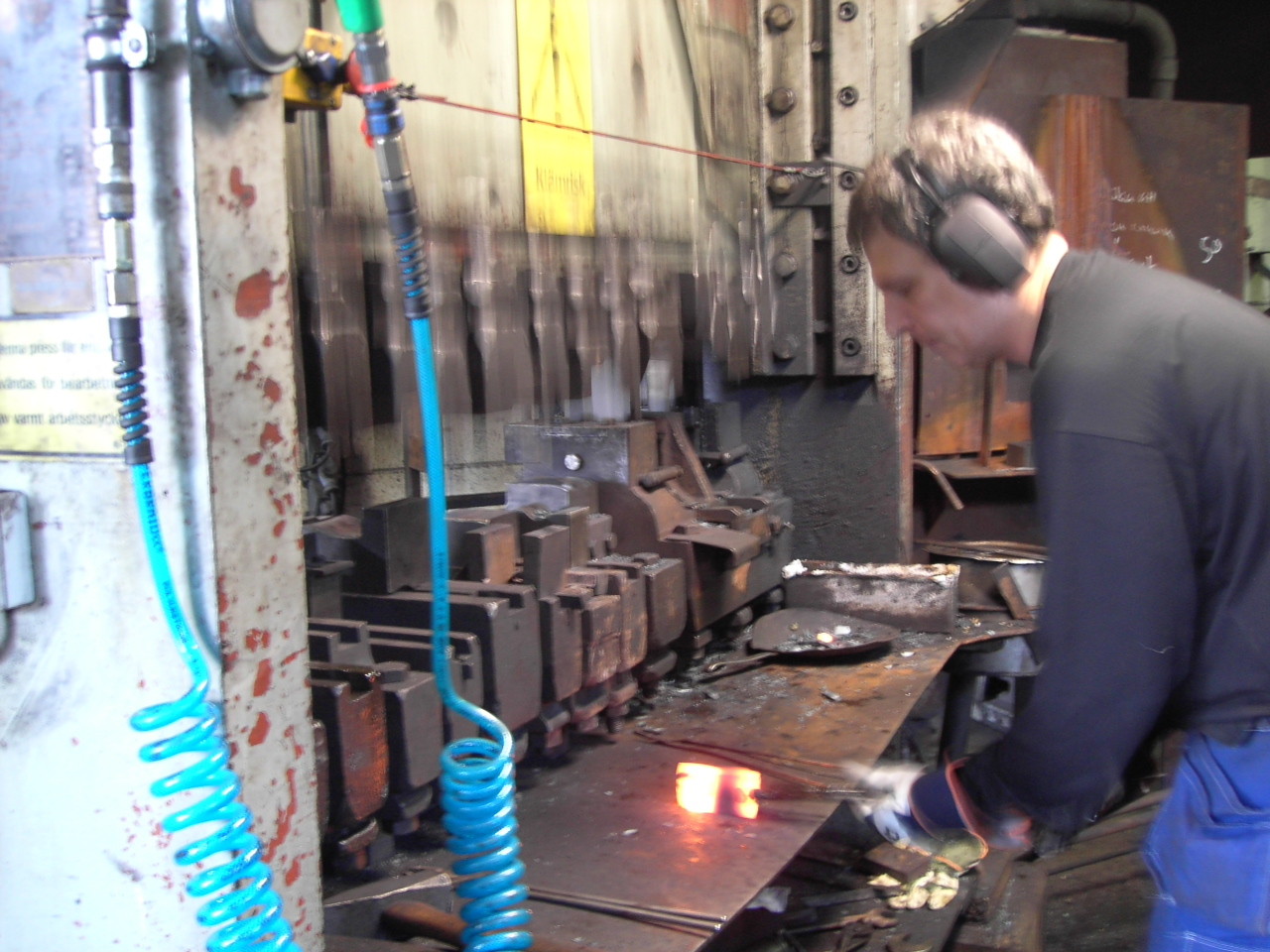 Production of a modern axe head for working with wood. Axes made at Hults bruk in Sweden are sold all over the world. The steel axe head is heated up and then made into the desired shape by the machine to the left, a hydraulic press.